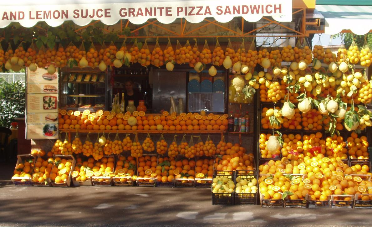 Citrus store at Pompei, Italy. Picture taken by David Shay.